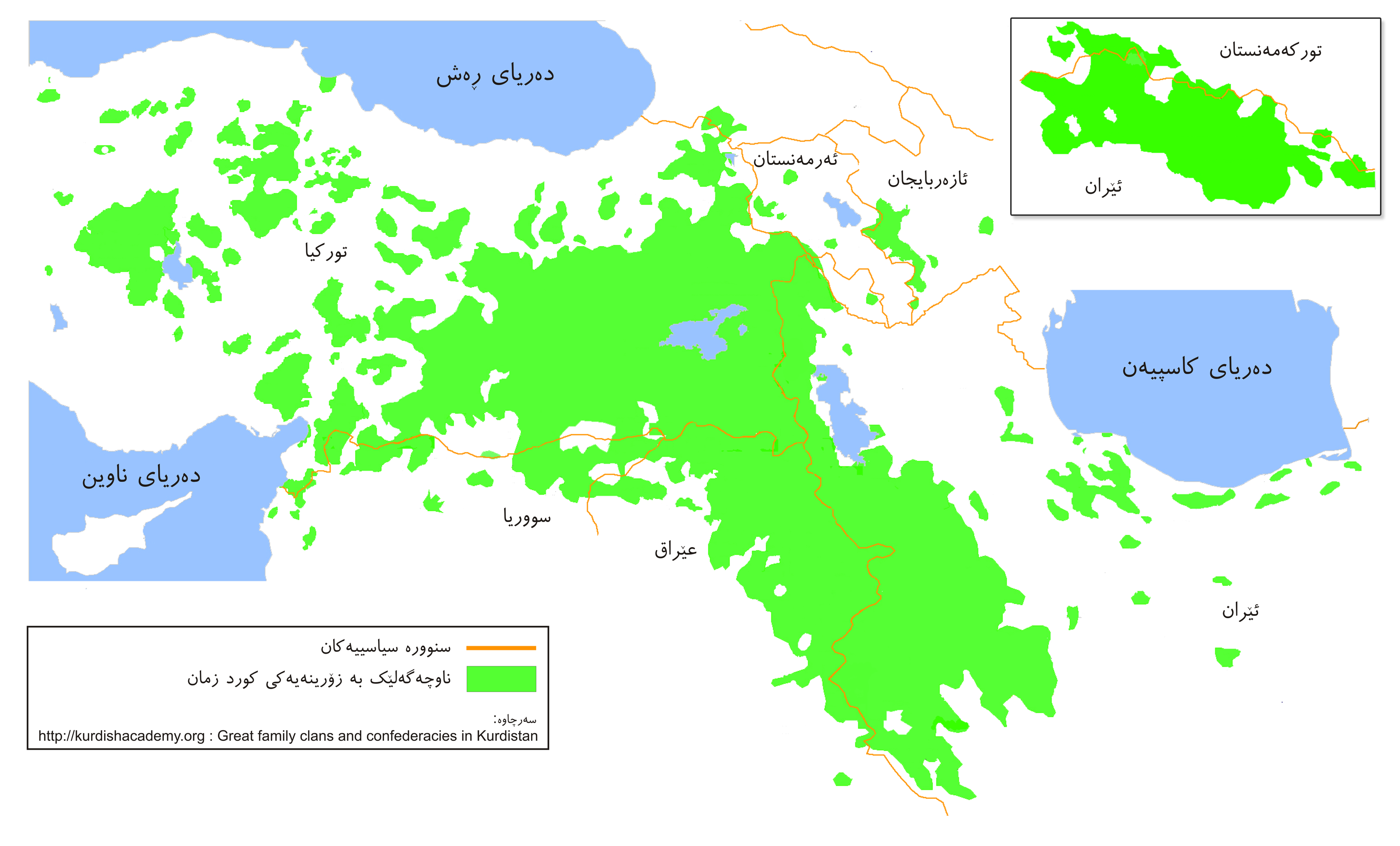 Kurdish Areas (Kurdistan). Original source: Kurdish Institute of Paris Map by Mehrdad Izady. Kurdî: ناوچە کوردنشینەکان (کوردستان)